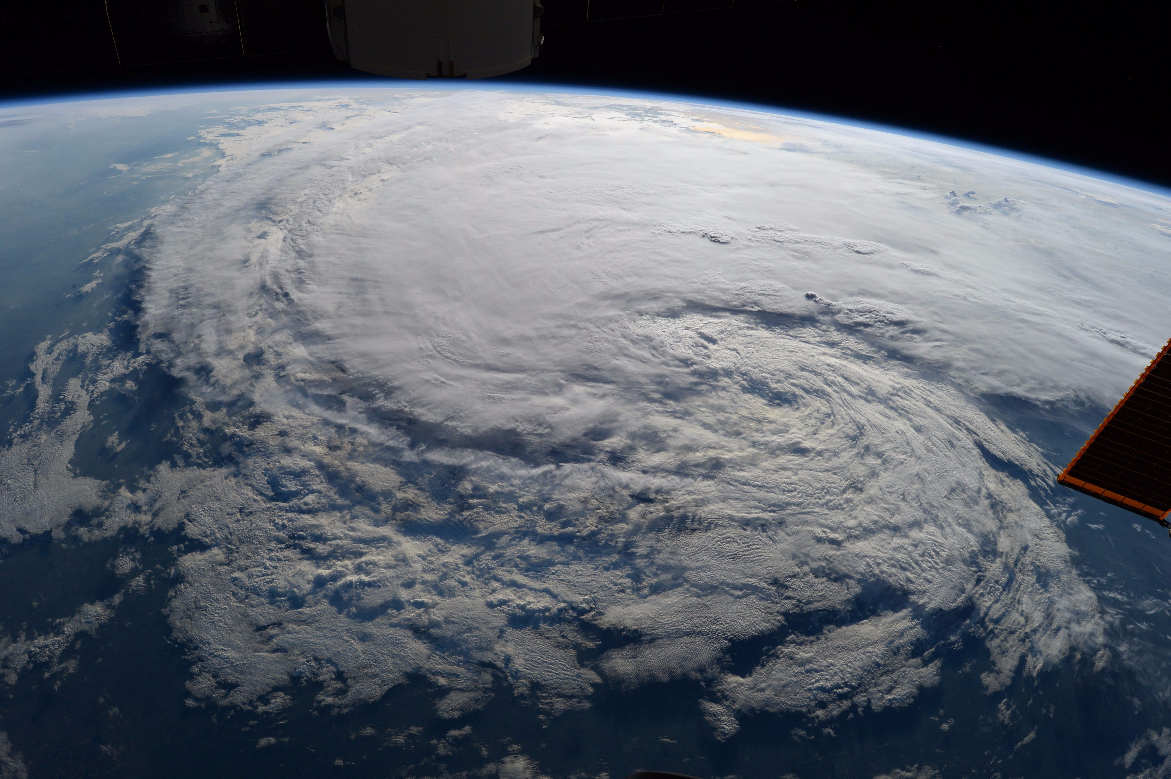 #Harvey - still a menace! Hearts & prayers go out to families, friends, & fellow Texans dealing with this storm. #TexasStrong #HoustonStrong As Tropical Storm Harvey continues along the Gulf Coast, NASA has canceled a planned Aug. 30 question and answer session with astronaut Peggy Whitson aboard the International Space Station. NASA astronaut Randy Bresnik took this photo of the storm Aug. 28 from the orbiting laboratory.